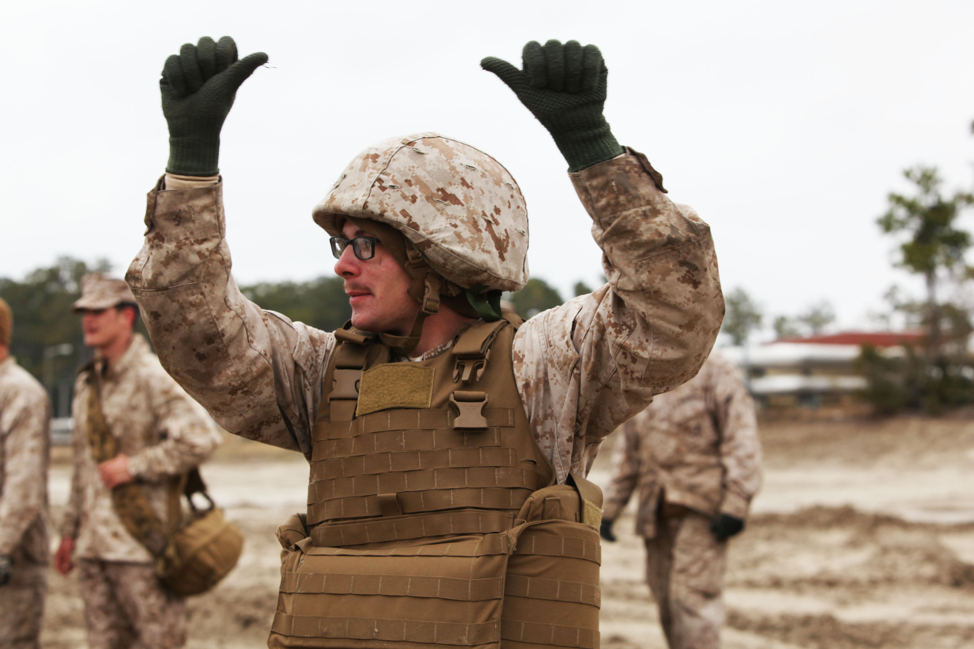 Lance Cpl. Jonathan Baker, a Norfolk, Va., native and motor vehicle operator with 2nd Maintenance Battalion, Combat Logistics Regiment 25, 2nd Marine Logistics Group, gives the signal to begin tightening the cords during the Vehicle Recovery Course aboard Camp Lejeune, N.C., March 25, 2013. The Marines had to work in teams to bring a Mine Resistant Ambush Protected vehicle back to its original position.